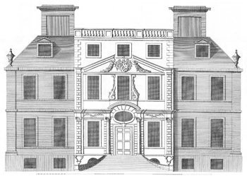 Escot House in the parish of Talaton, Devon as shown in Vitruvius Britannicus, 1715, Vol I, Plate 78